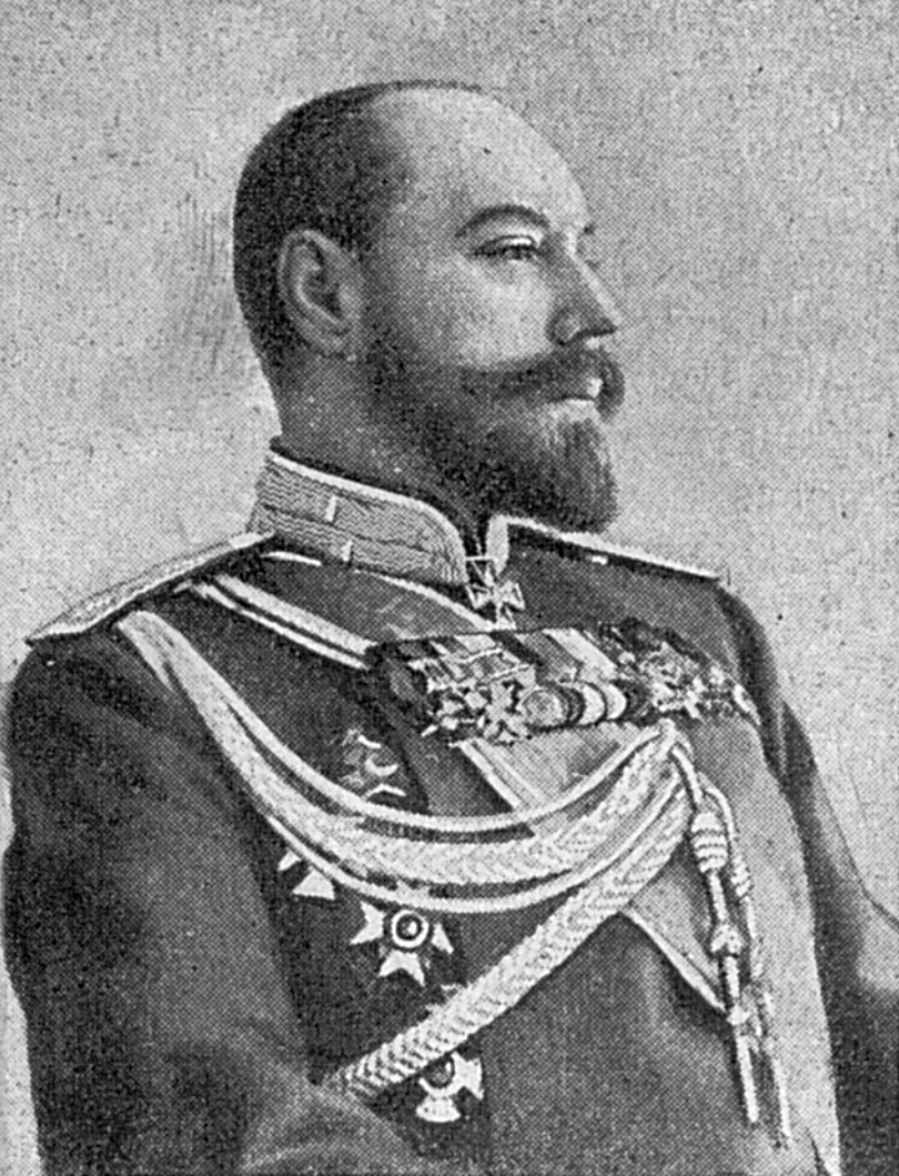 Trepov, Dimity Fyodorovich